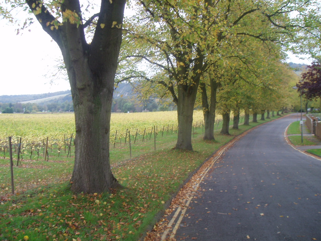 Created by Ojw while surveying for OpenStreetMap